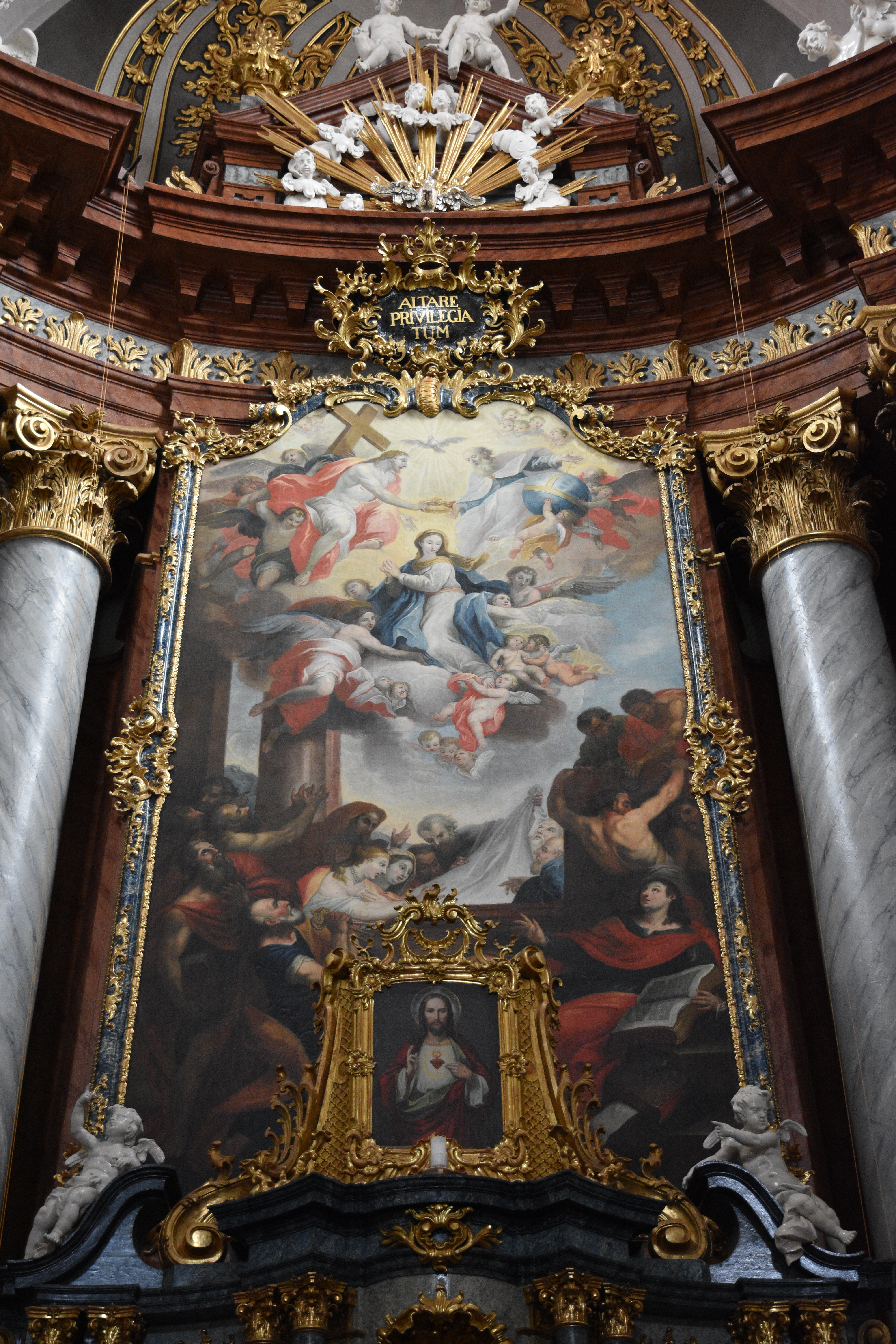 Cistercian church, Szentgotthárd (interior)